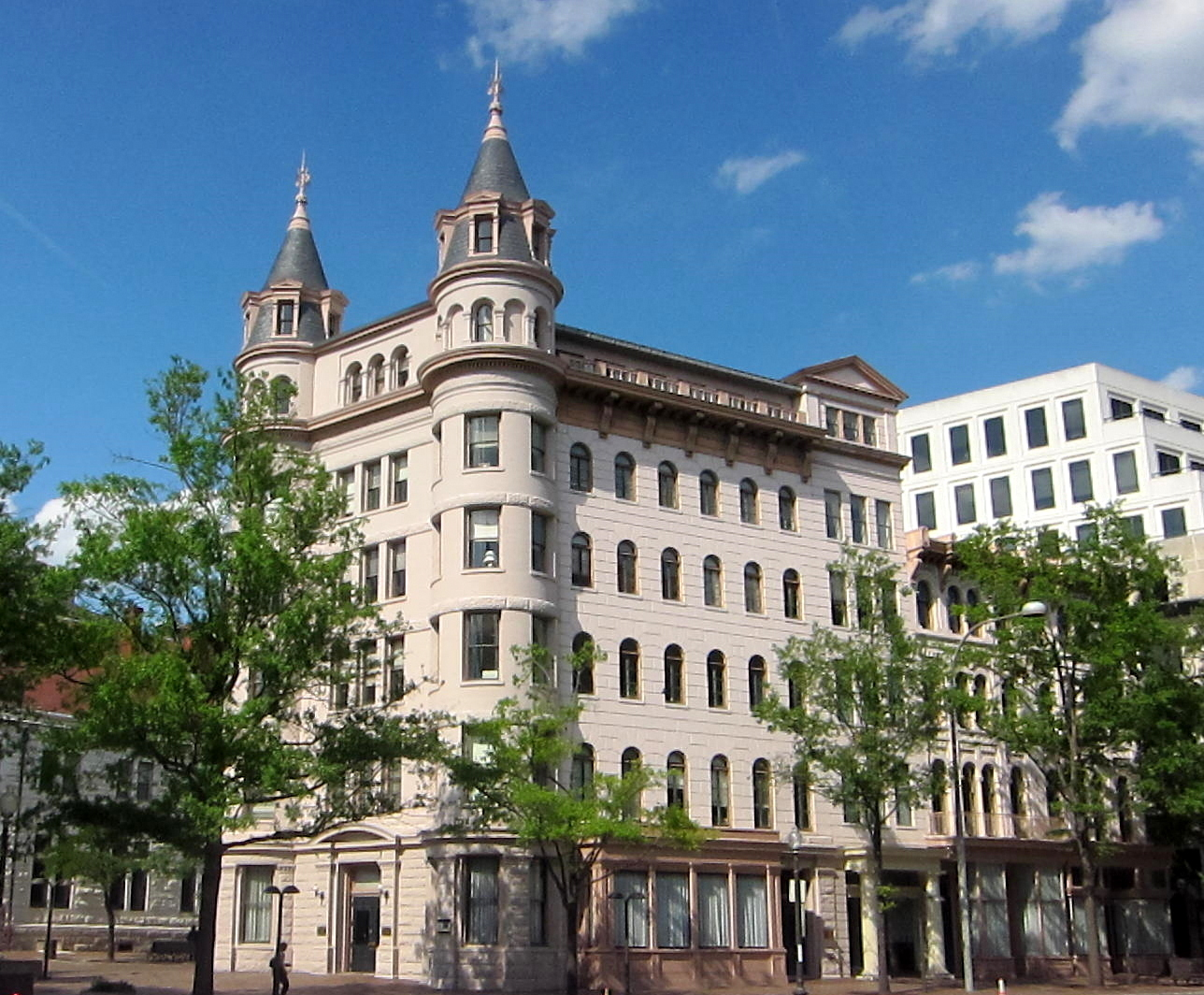 The Dorothy I. Height Building, historically known as the Central National Bank or Apex Building, is the national headquarters of the National Council of Negro Women. It is located at 633 Pennsylvania Avenue NW in the Penn Quarter neighborhood of Washington, D.C. Built in 1860 to the designs of noted architect Alfred B. Mullett, the Late Victorian-style Dorothy I. Height Building is listed on the National Register of Historic Places. In addition, the building is designated as a contributing property to the Pennsylvania Avenue National Historic Site and the Downtown Historic District.